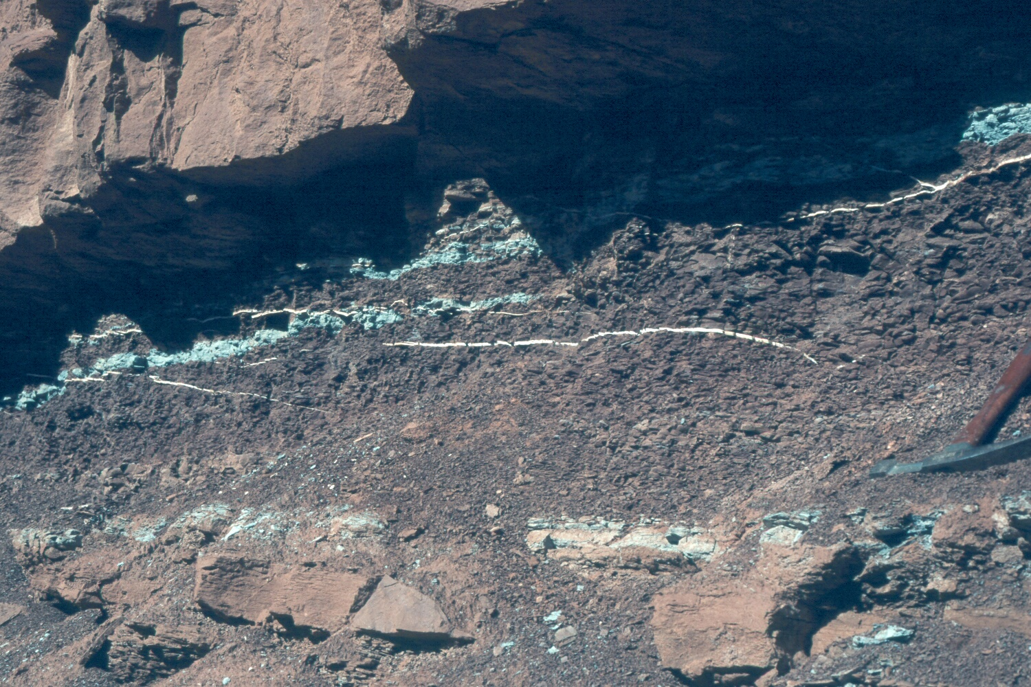 Gypsum veins in the Chugwater Formation. Outcrop near Thermopolis. Rock hammer at right for scale.